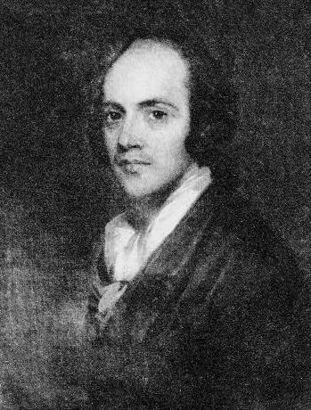 Aaron Burr, Presbyterian minister, head-and-shoulders portrait, facing left.